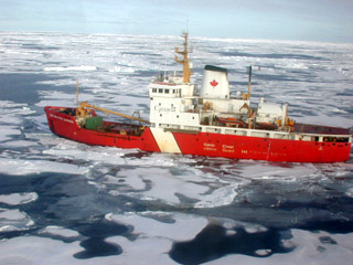 The Canadian Coast Guard Ship Sir Wilfrid Laurier. The original caption reads: "The CCGS Sir Wilfrid Laurier in the Beaufort Sea. This photo taken from the helicopter as it headed toward the first buoy deployment site."